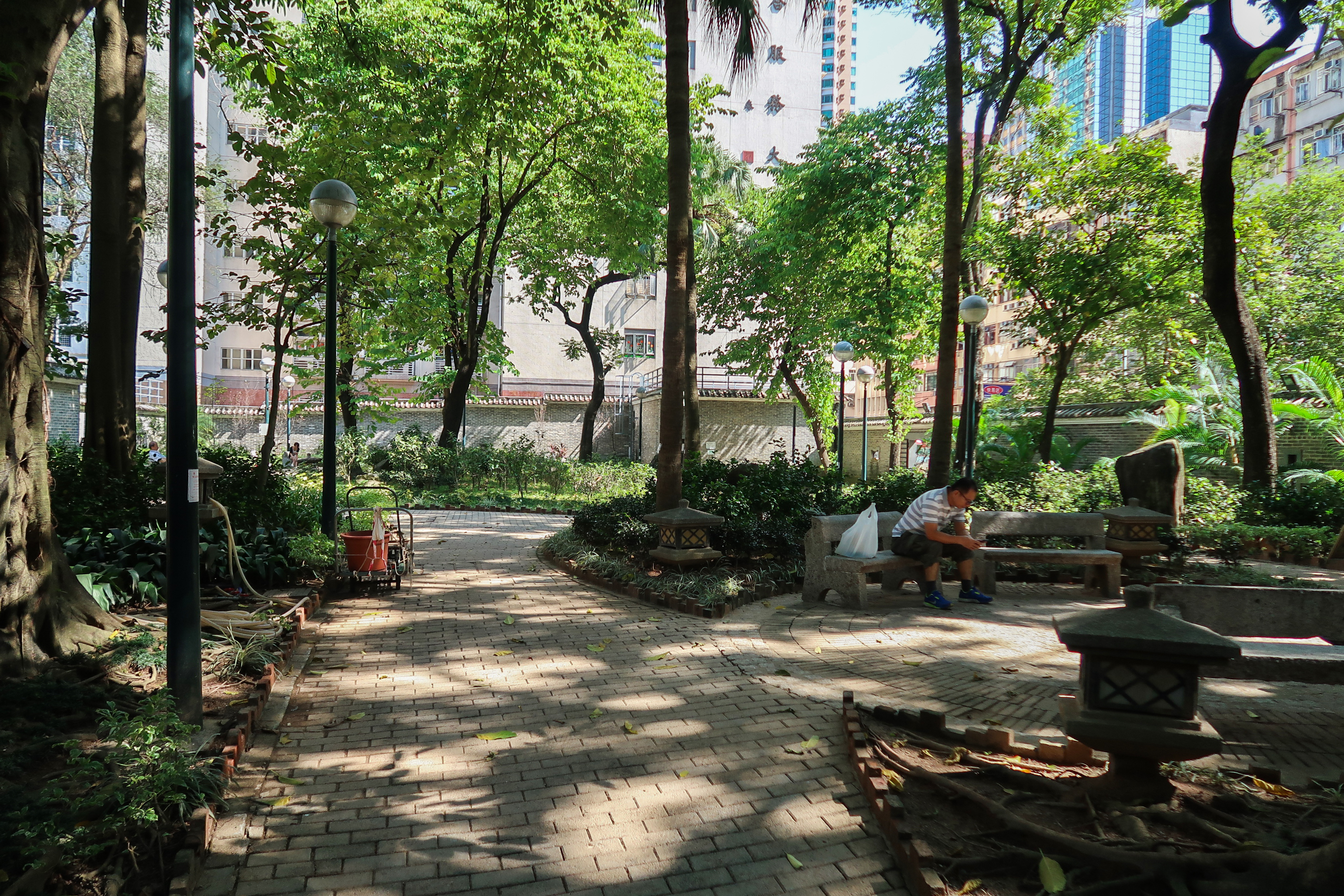 Jockey Club Tak Wah Park Camellia Garden